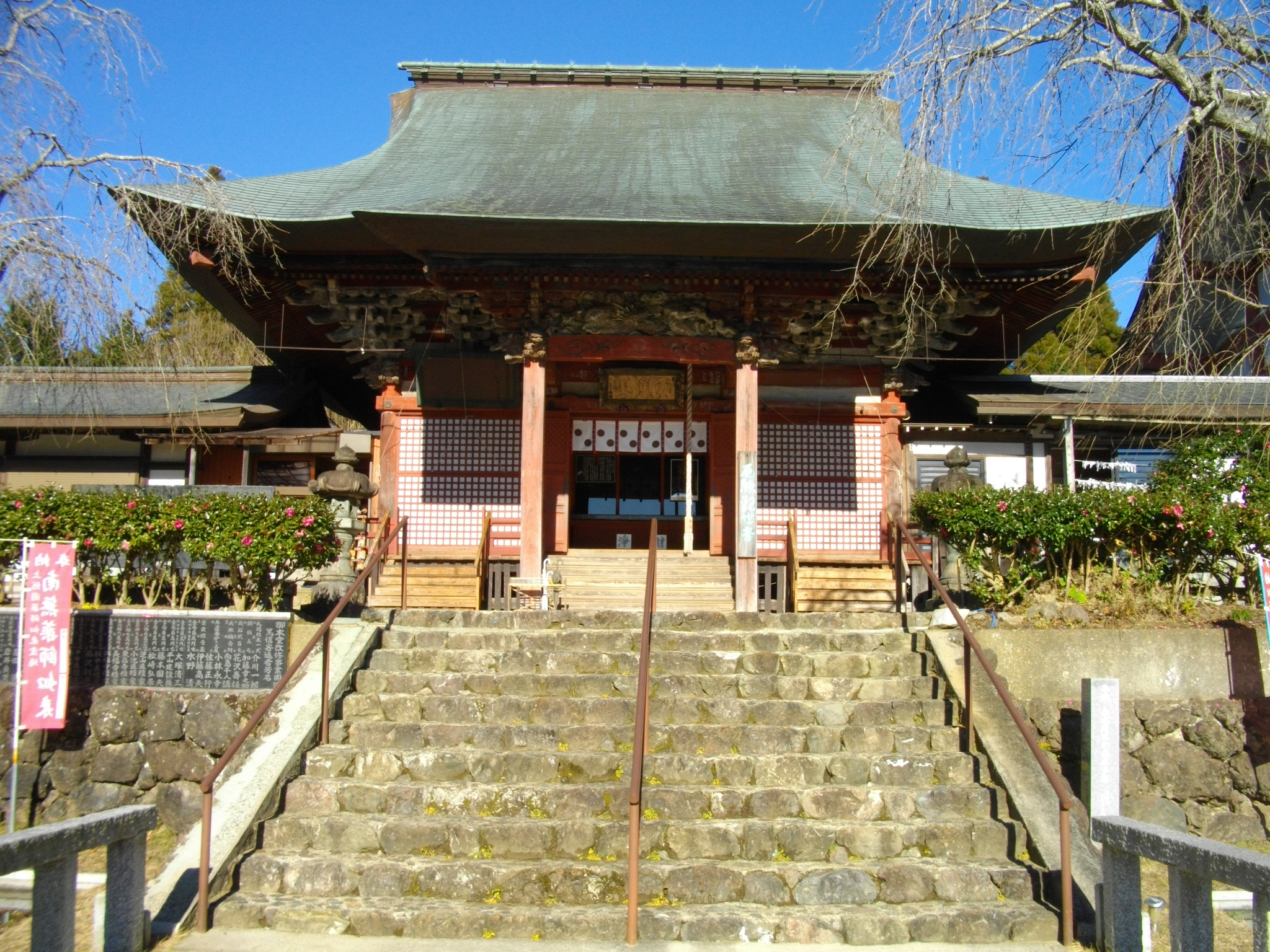 Kannonkyo-ji Main Hall